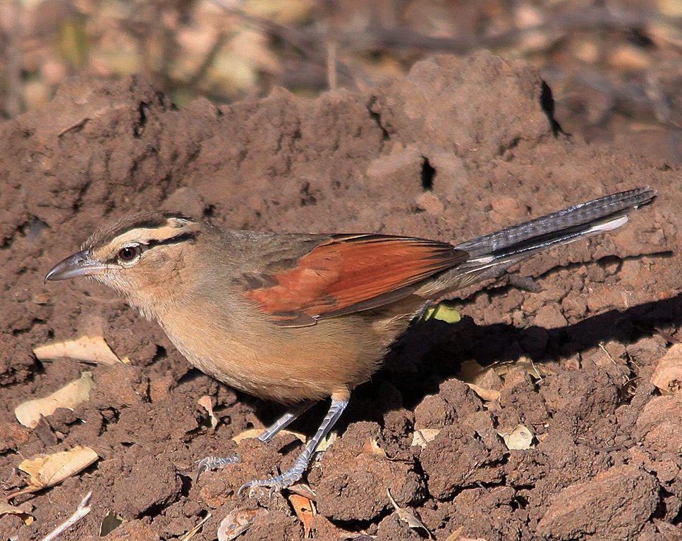 A Brown-crowned Tchagra at Marakele National Park, South Africa.